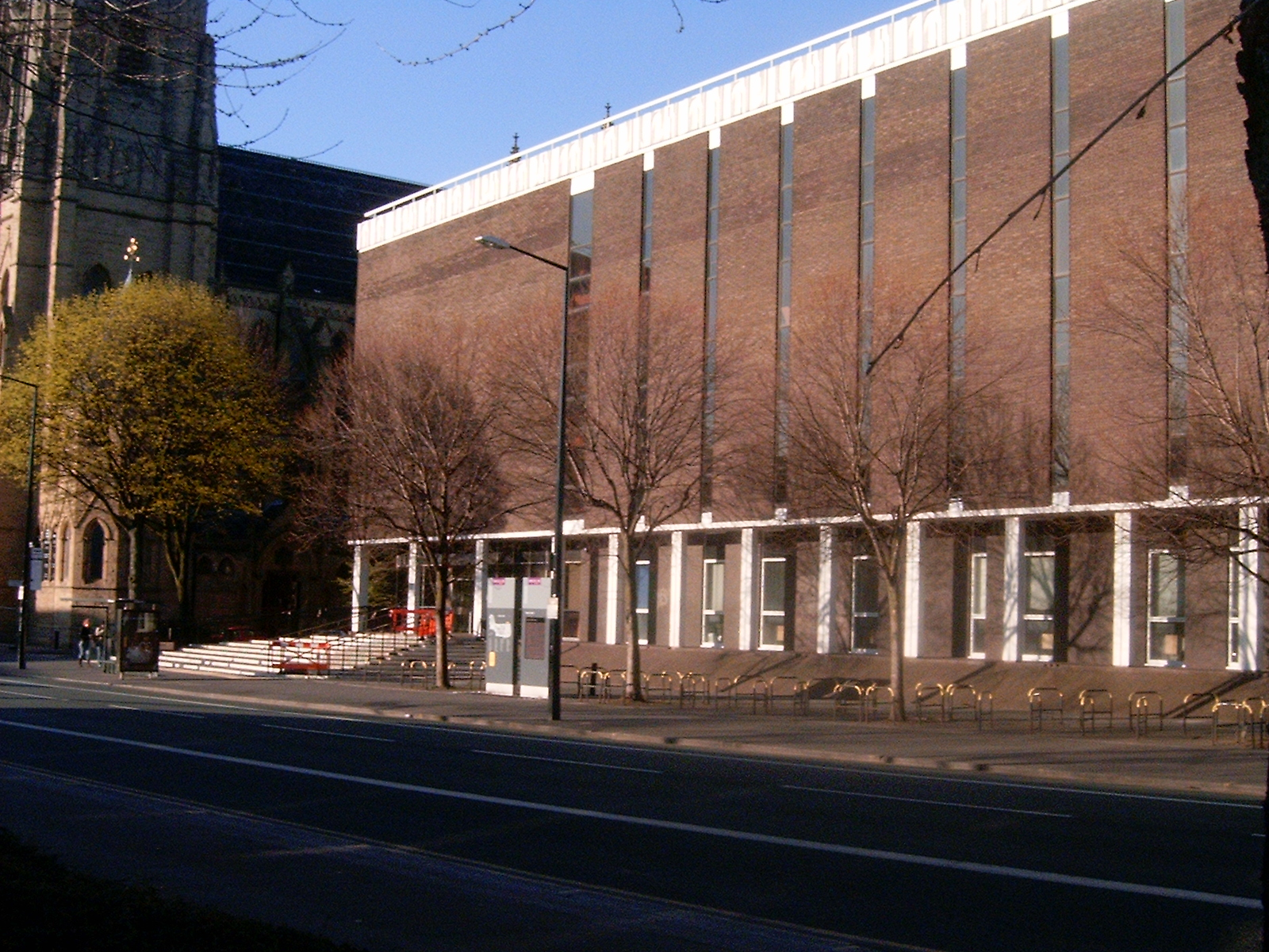 Stopford Building, University of Manchester, Manchester, England